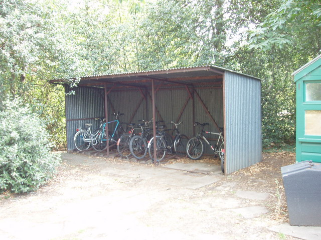 Bike shed, Kew Gardens. Staff at Kew use bicycles to get around the gardens. This shed is by a staff entrance.